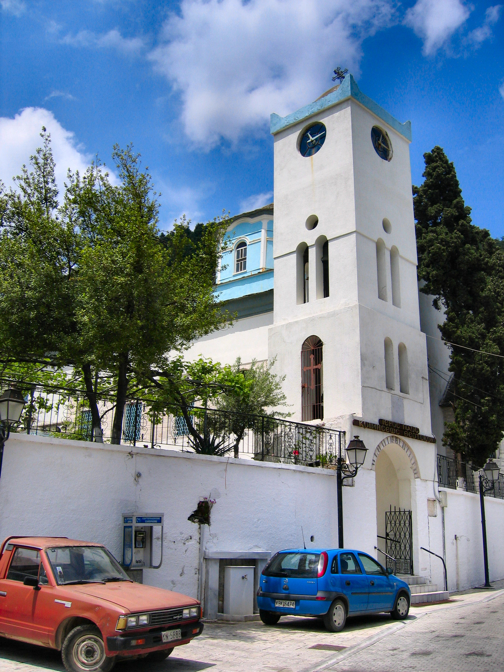 The local church in the centre of the village of Panagia on the Island of Thassos. Greece.